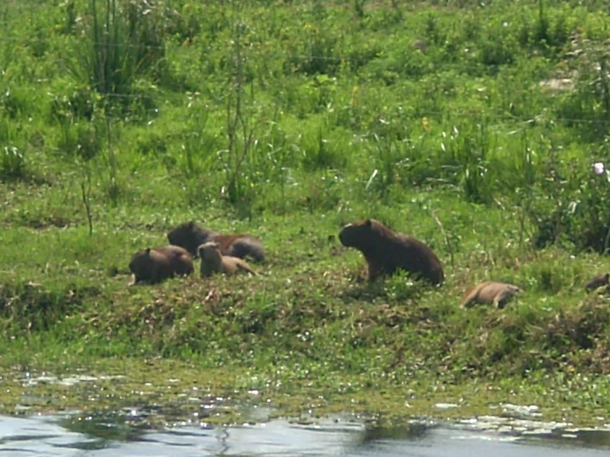 Capivara family, in the ecological reserve of Taim, municipalities of Santa Vitória do Palmar and Rio Grande, Rio Grande do Sul, Brazil.